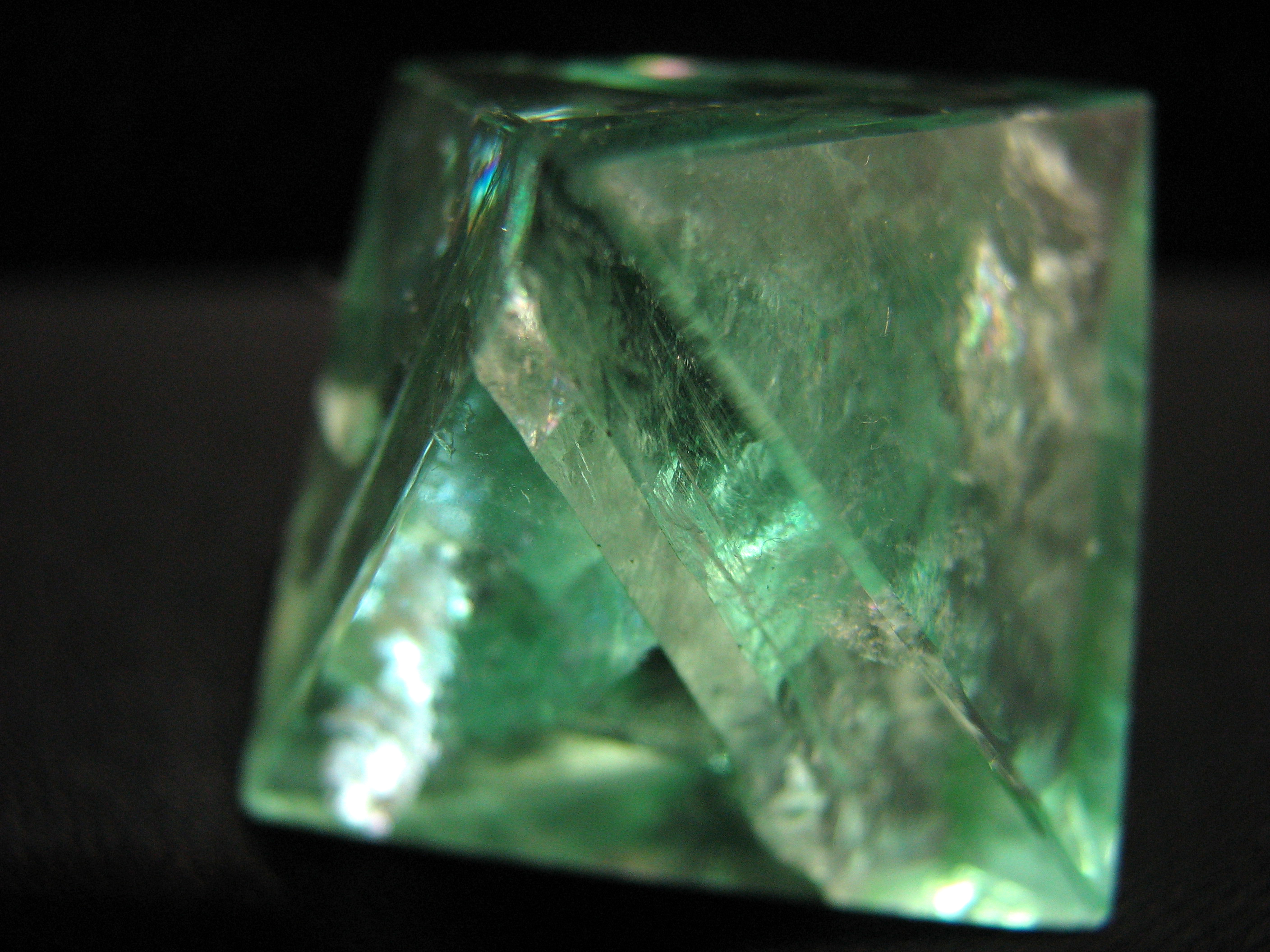 I've always loved fluourite octahedra for some obsessive reason.... This one's about 4 cm point to point....Fluorite octahedron